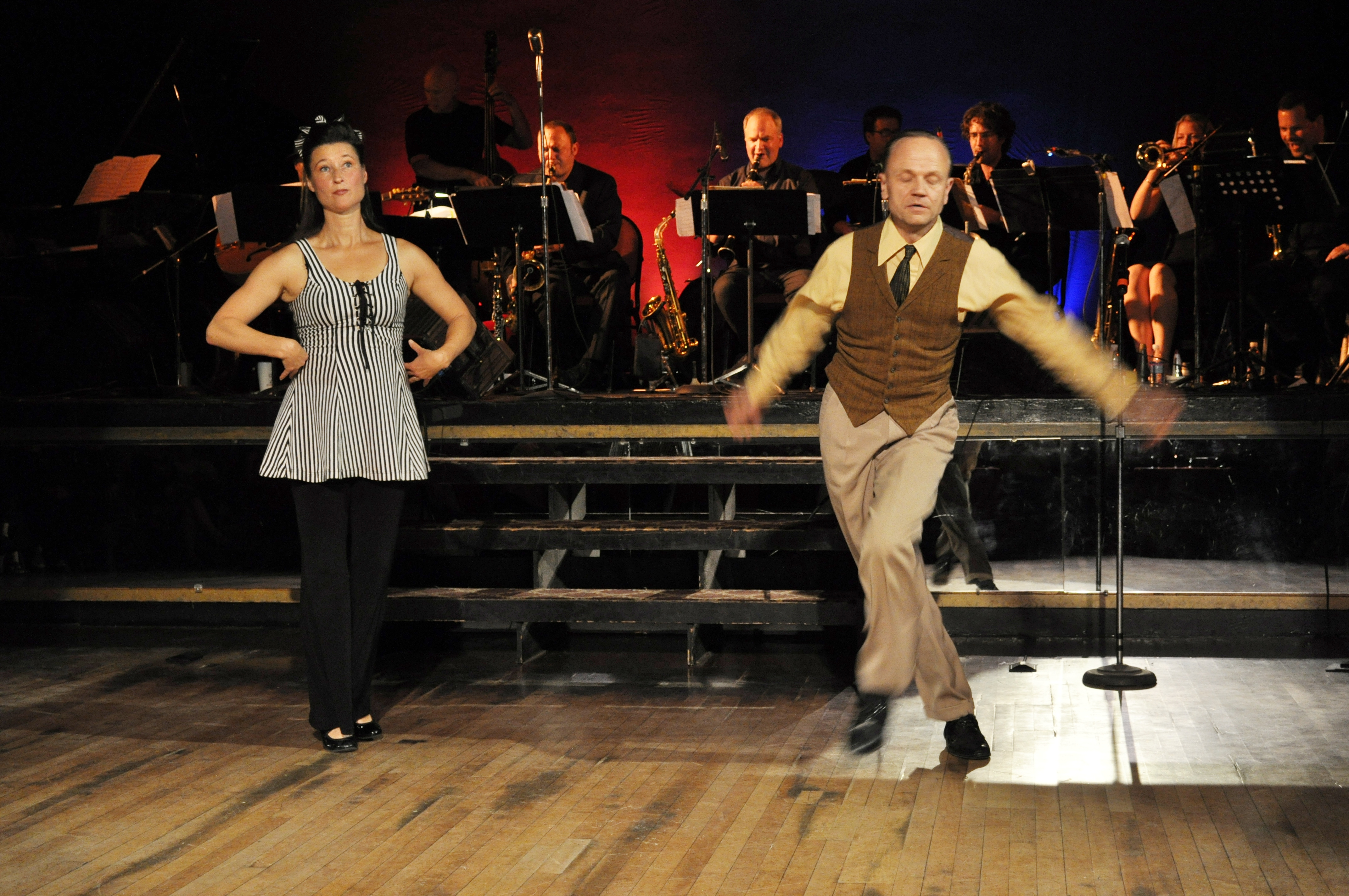 Dancers Lennart Westerlund & Catrine Ljunggren performing at Masters of Lindy Hop and Tap, Century Ballroom, Oddfellows Temple, Pine Street, Capitol Hill, Seattle, Washington, USA.